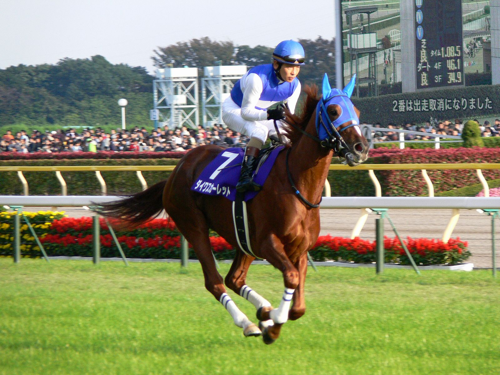 Japanese race horse "Daiwa Scarlet" at "Tenno sho autumn(Emperor's cup autumn)" Tokyo racecourse.